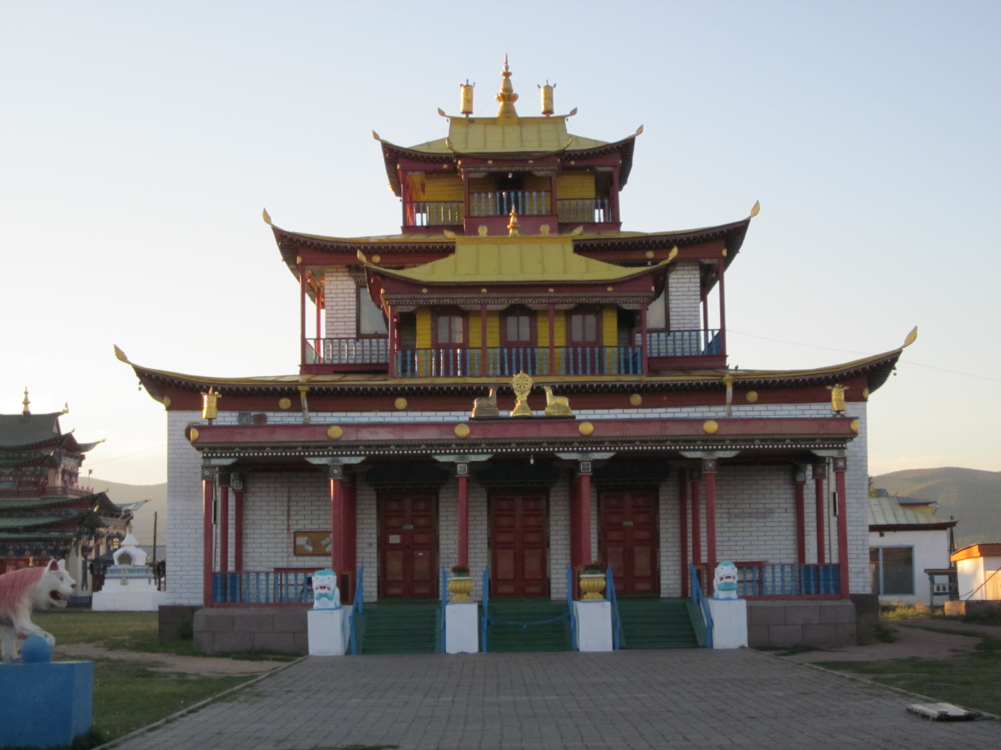 Ivolginskiy Datsan, Vyerkhnyaya Ivolga, Buryatia, Russia